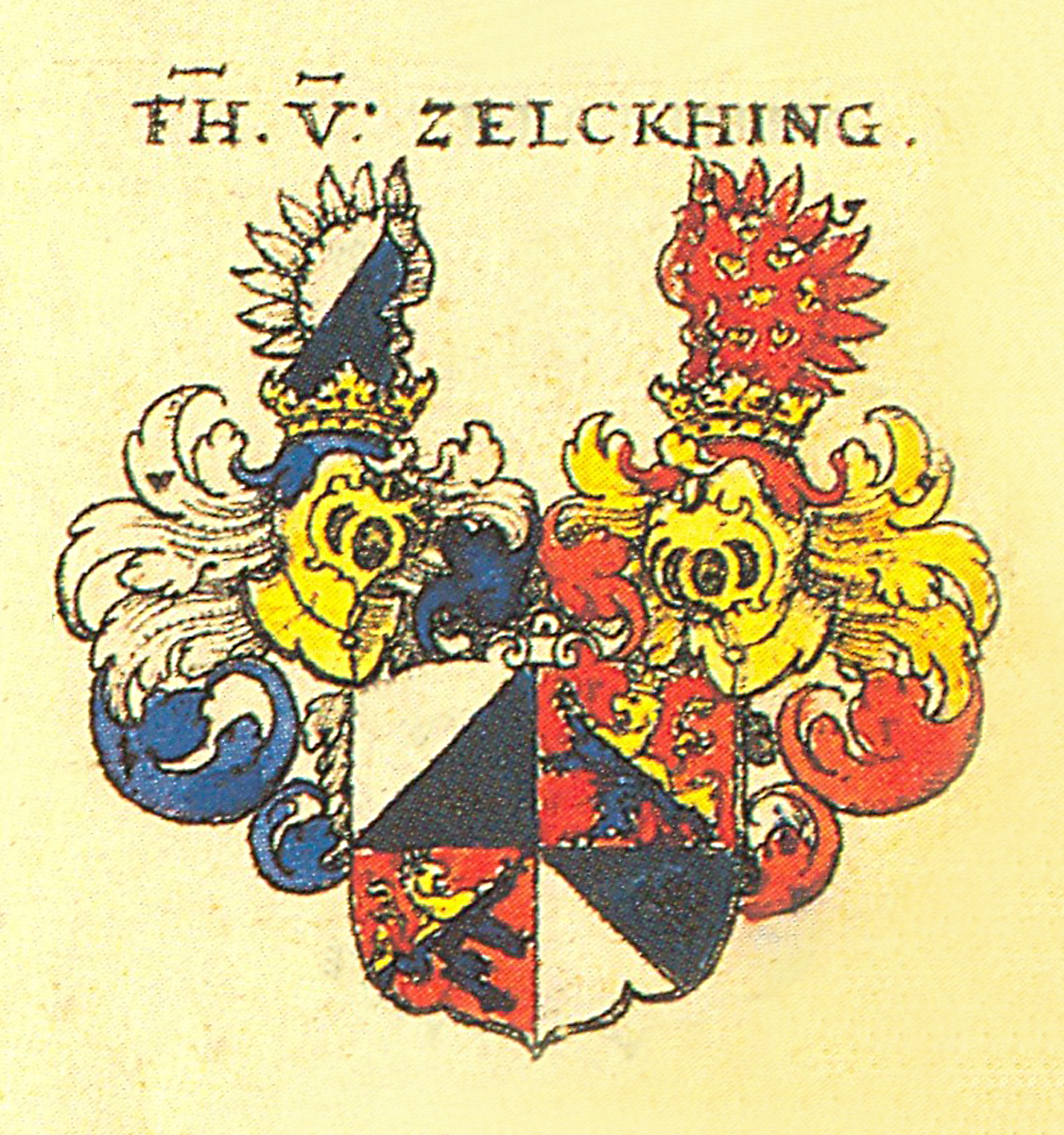 Coat of Arms of Zelking